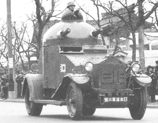 Vickers Crossley Armored Cars were used in the Manchurian Incident by the Imperial Japanese Army and by the Imperial Japanese Navy Special Naval Landing Force in the Shanghai Incident. The car on this image was from the IJN, as it was written on the number plate.